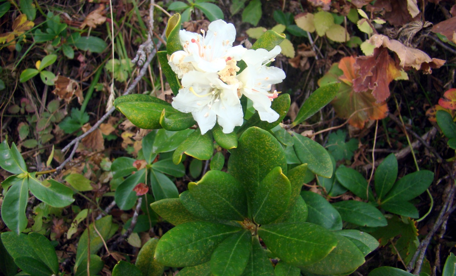 Turkish Rhododendron